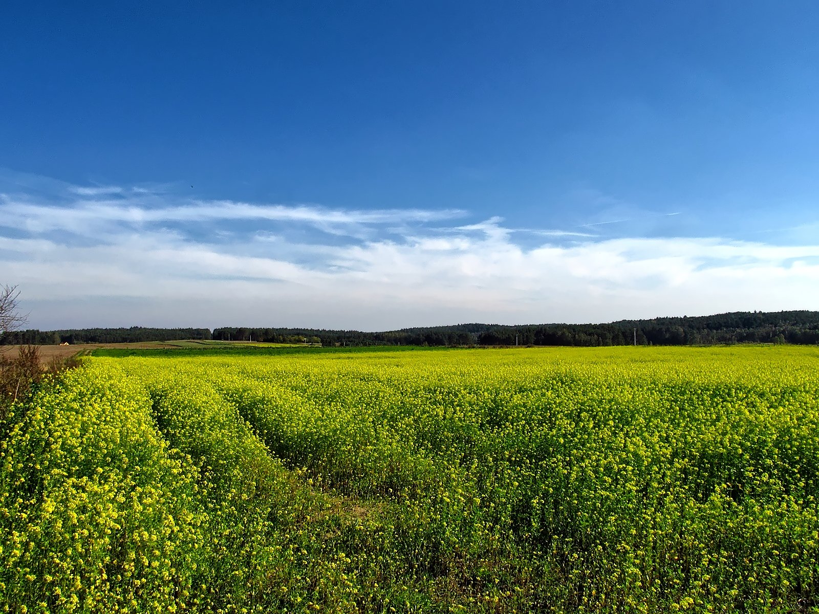 Yellow fields of buckwheat on the way to Bukowiec